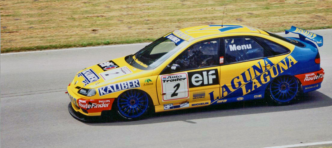 Alain Menu driving for Renault in the 1996 British Touring Car Championship (Cropped)